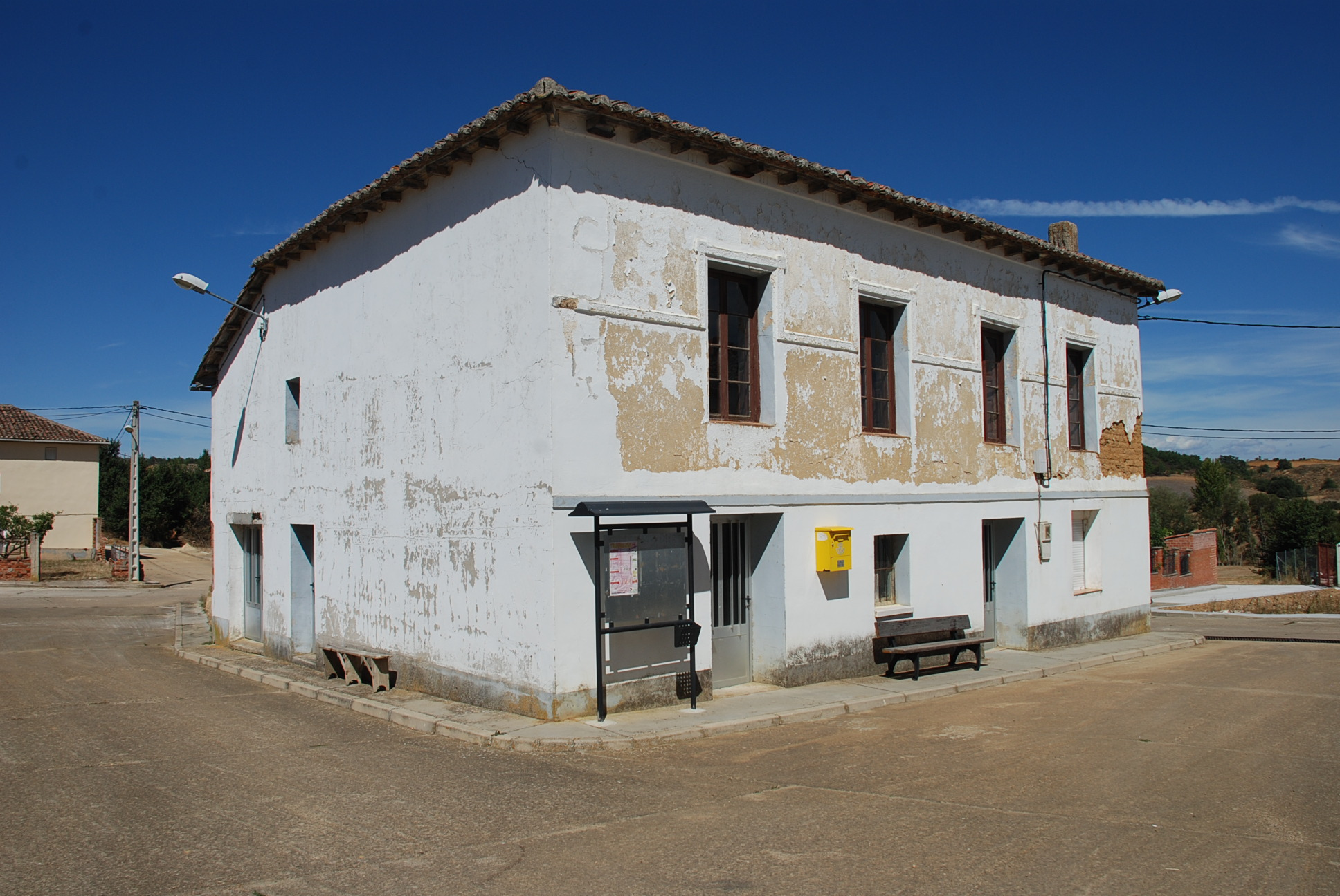 Valles de Valdavia (Palencia, Castile and León).